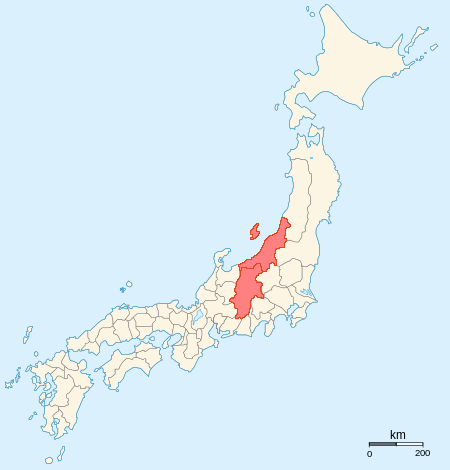 Shows Shin'etsu subregion highlighted. Contains prefectures Niigata and Nagano